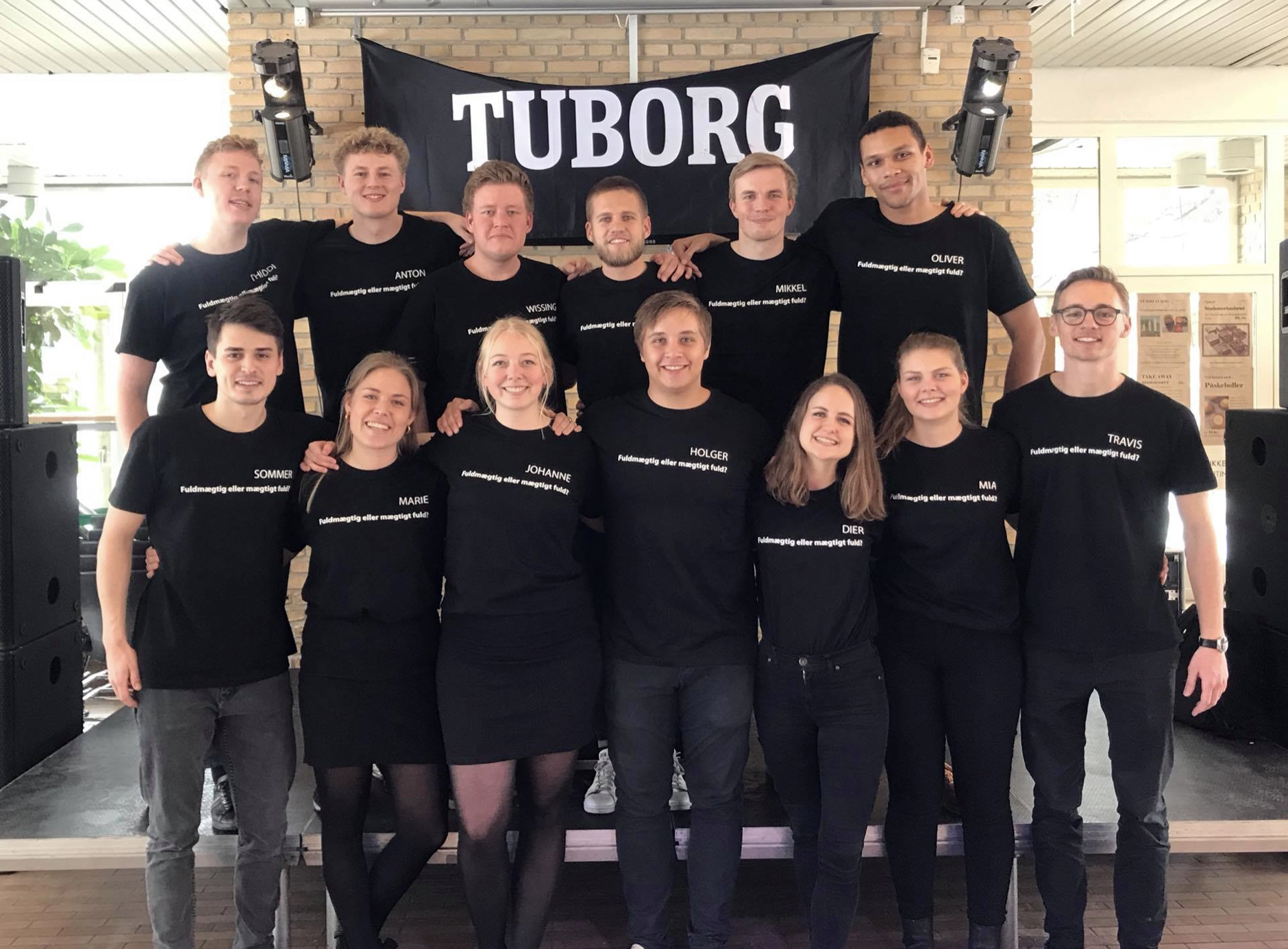 Slogan for board